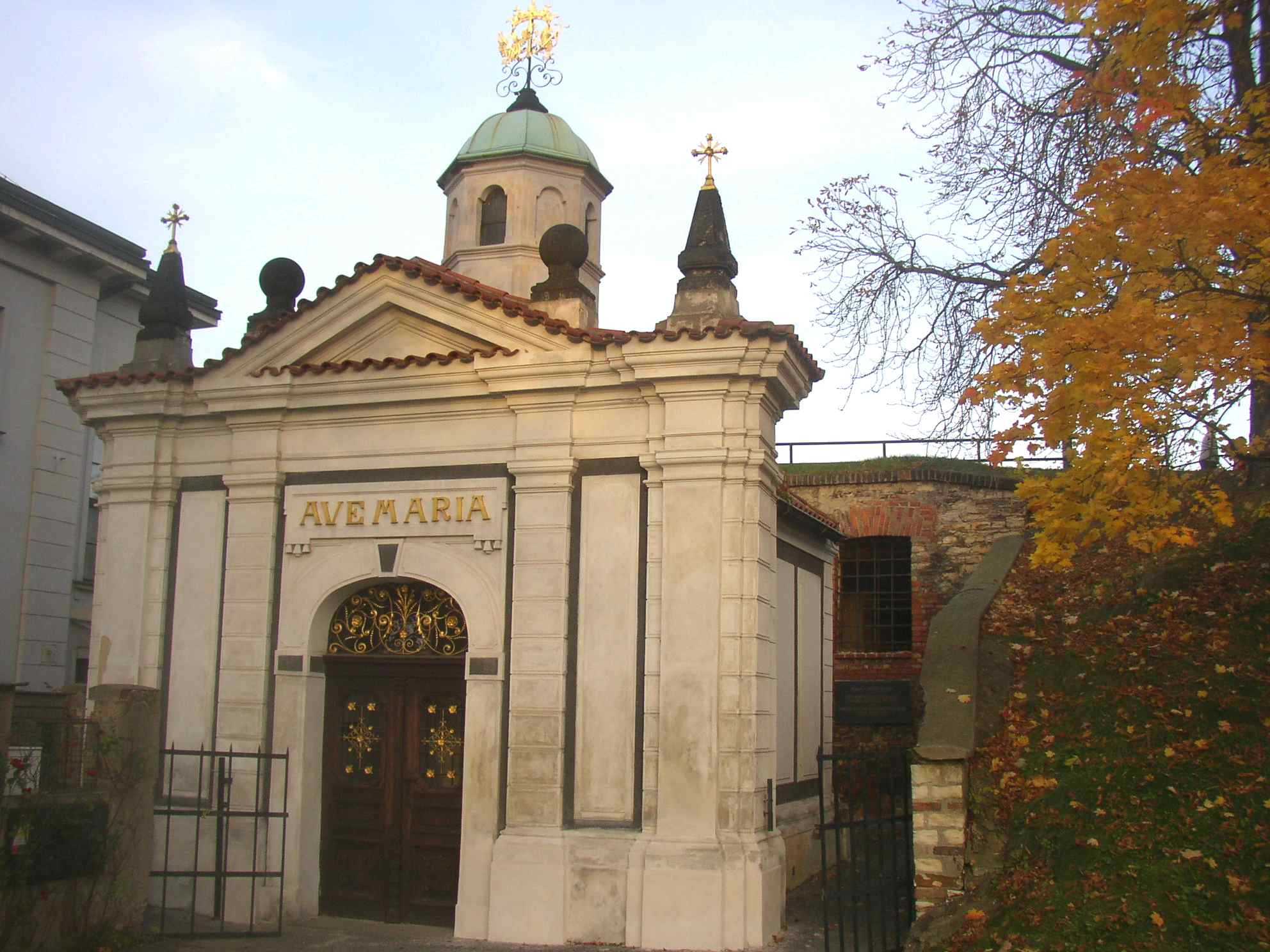 Our Lady of the Fortification chapel from 1764 in Vyšehrad, Prague, Czech Republic. Remains of St. John the Baptist's Beheading church are hidden in the fortification behind the chapel.